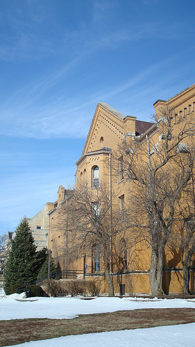 Williston Hall, Northern Illinois University, Illinois, United States